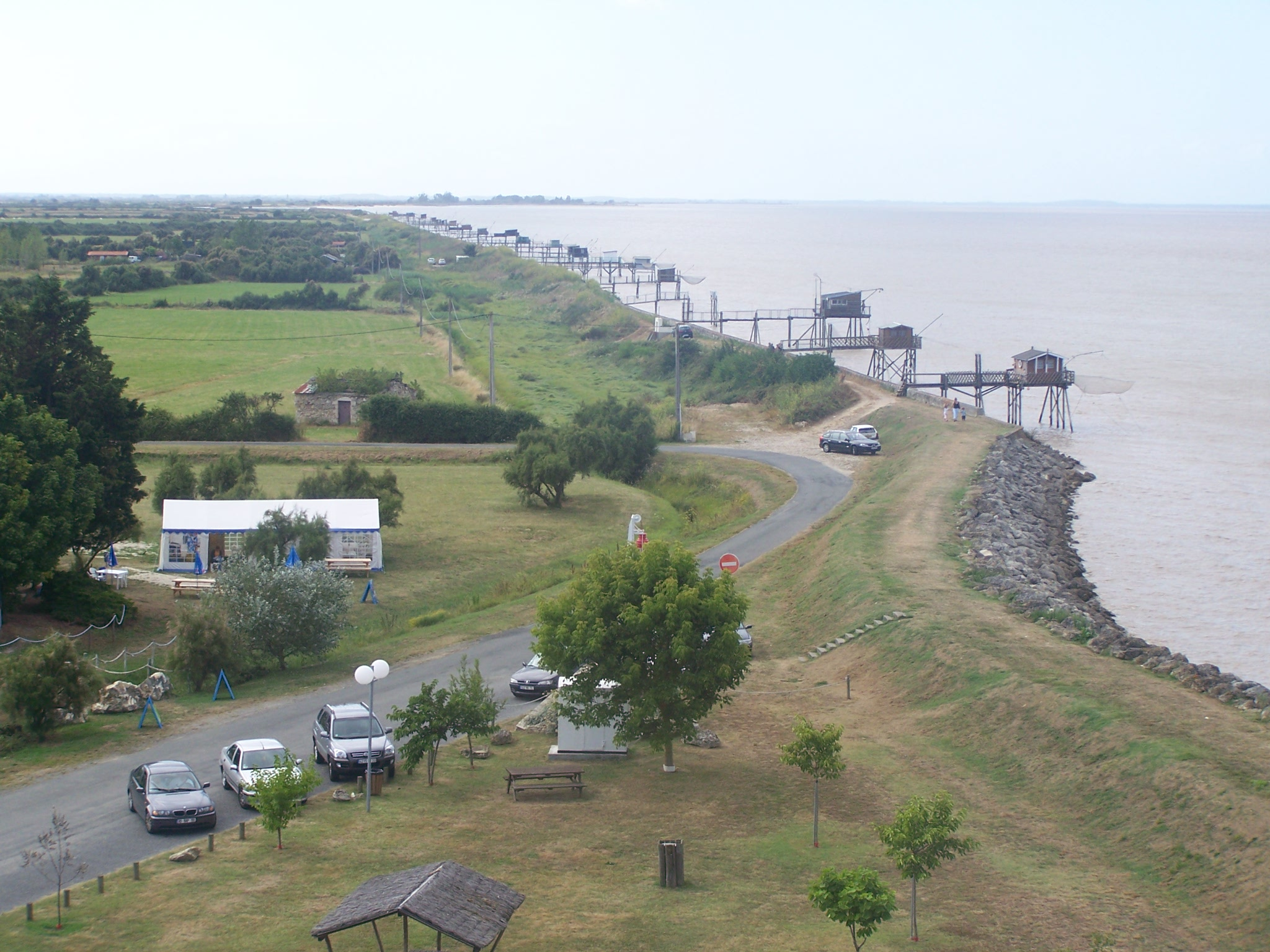 Typic fisherman's cabins on the Gironde estuary coast, in France, seen from the phare de Richard lighthouse.